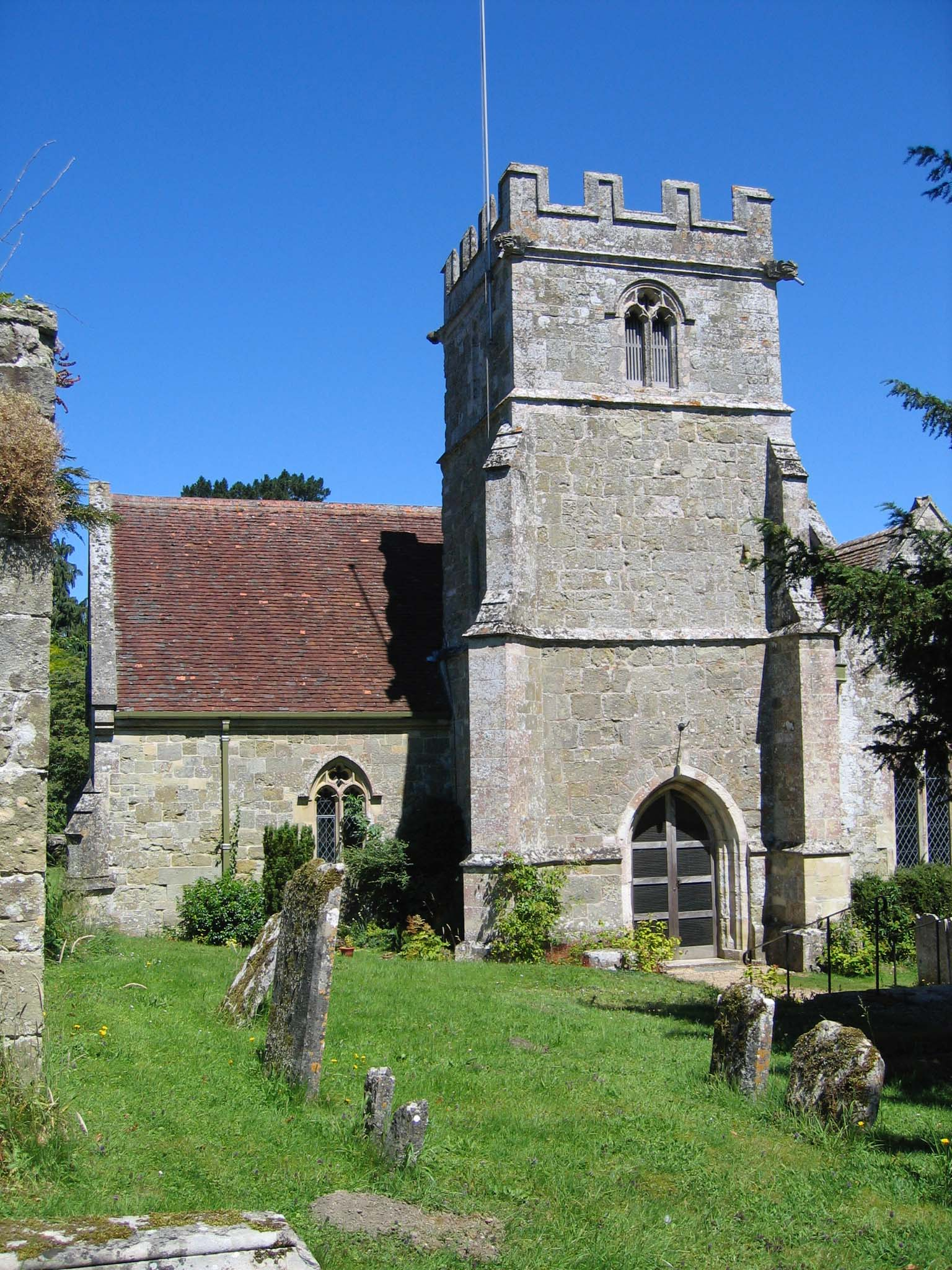 Tower and nave of St Michael's parish church, Compton Chamberlayne, Wiltshire, seen from the south